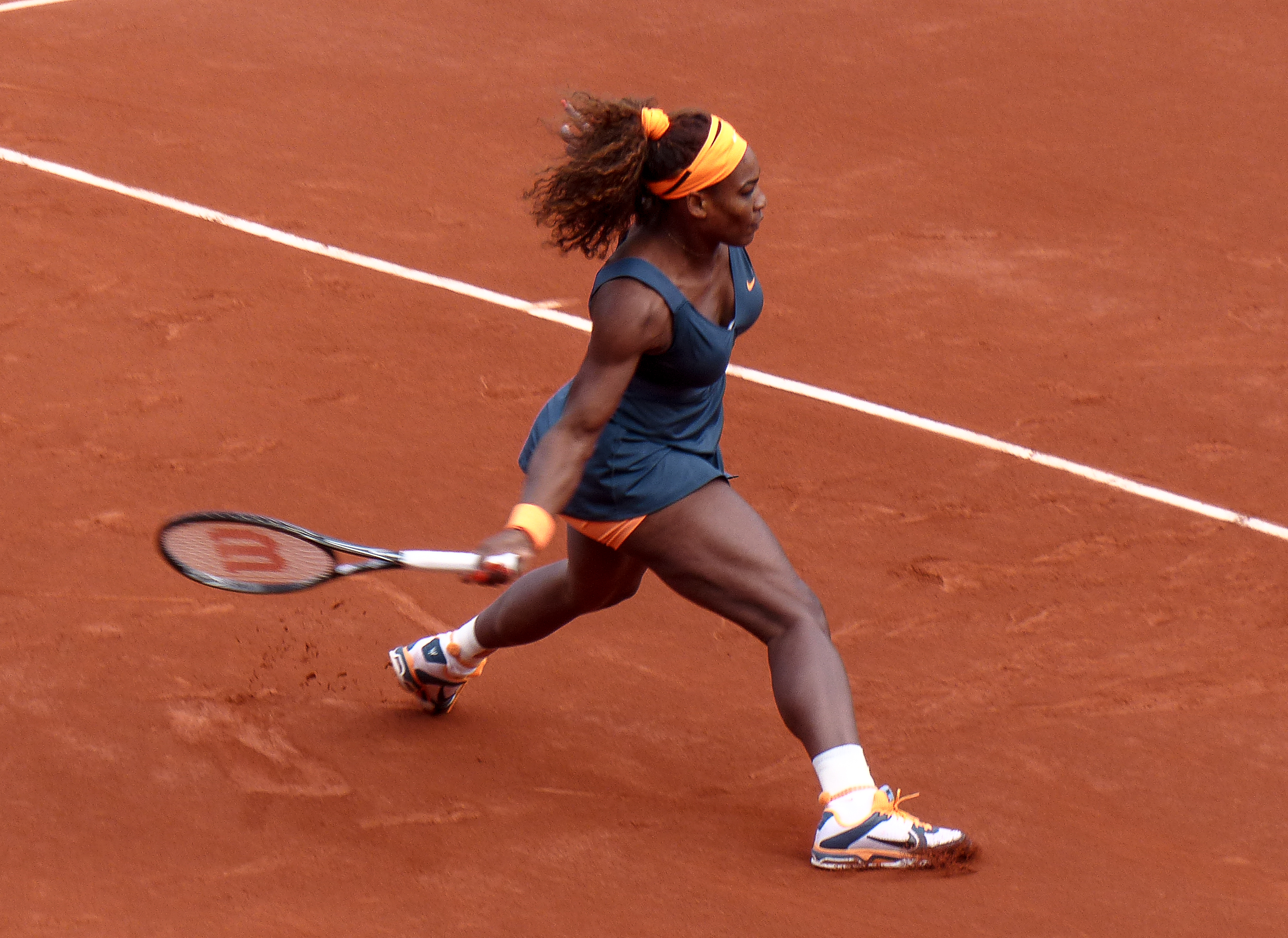 2ème tour Roland Garros 2013 : Serena Williams (USA) def. Caroline Garcia (FRA)